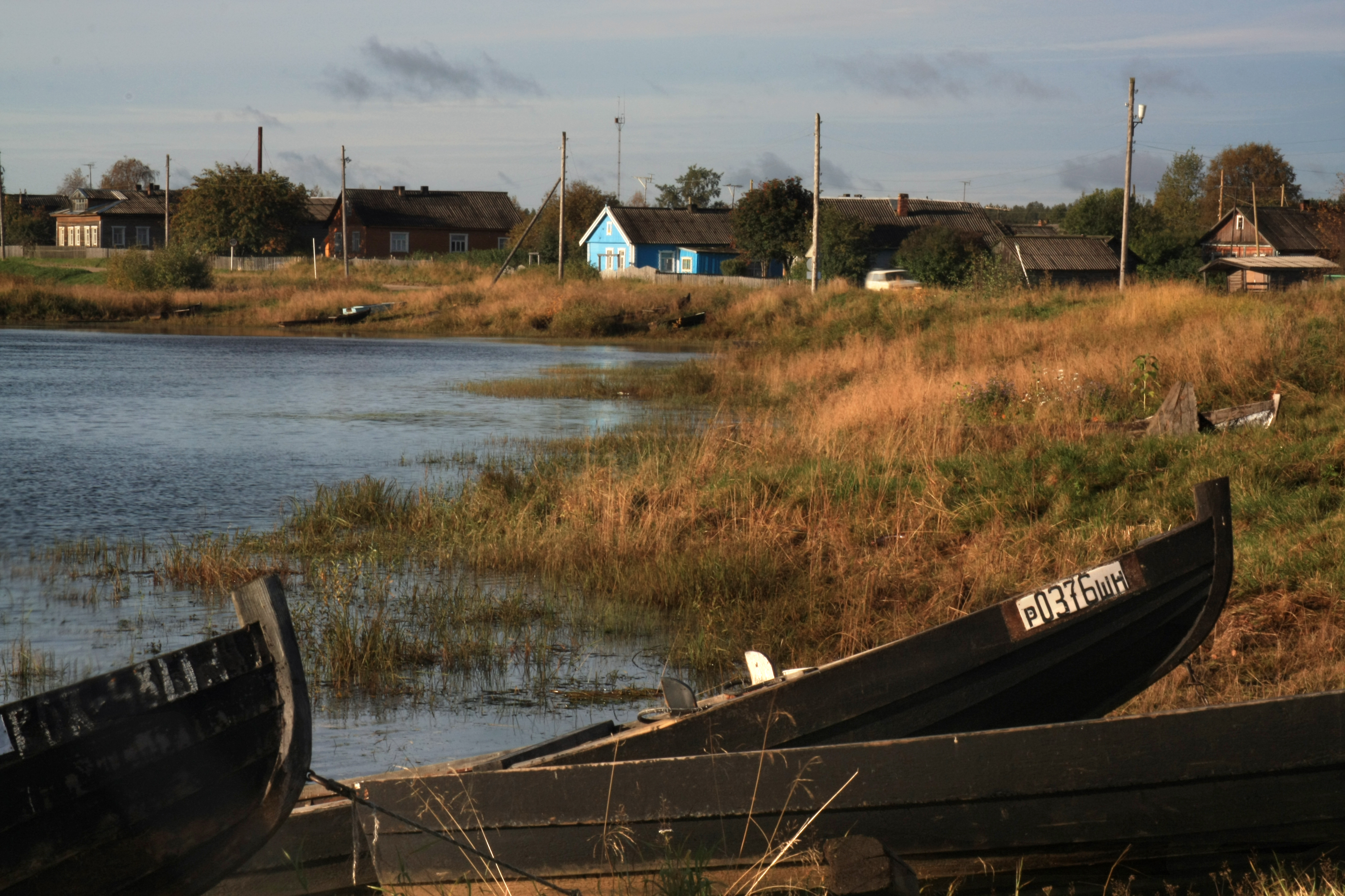 Karelian folk boat